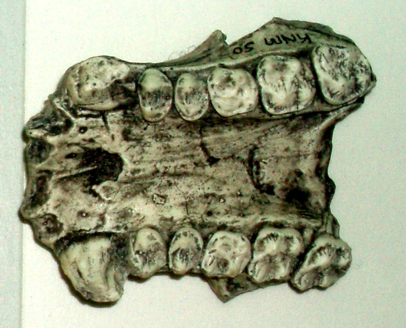 Fossil KNM-SO 700, type specimen of Rangwapithecus gordoni (jr synonym=Proconsul gordoni), an extinct ape